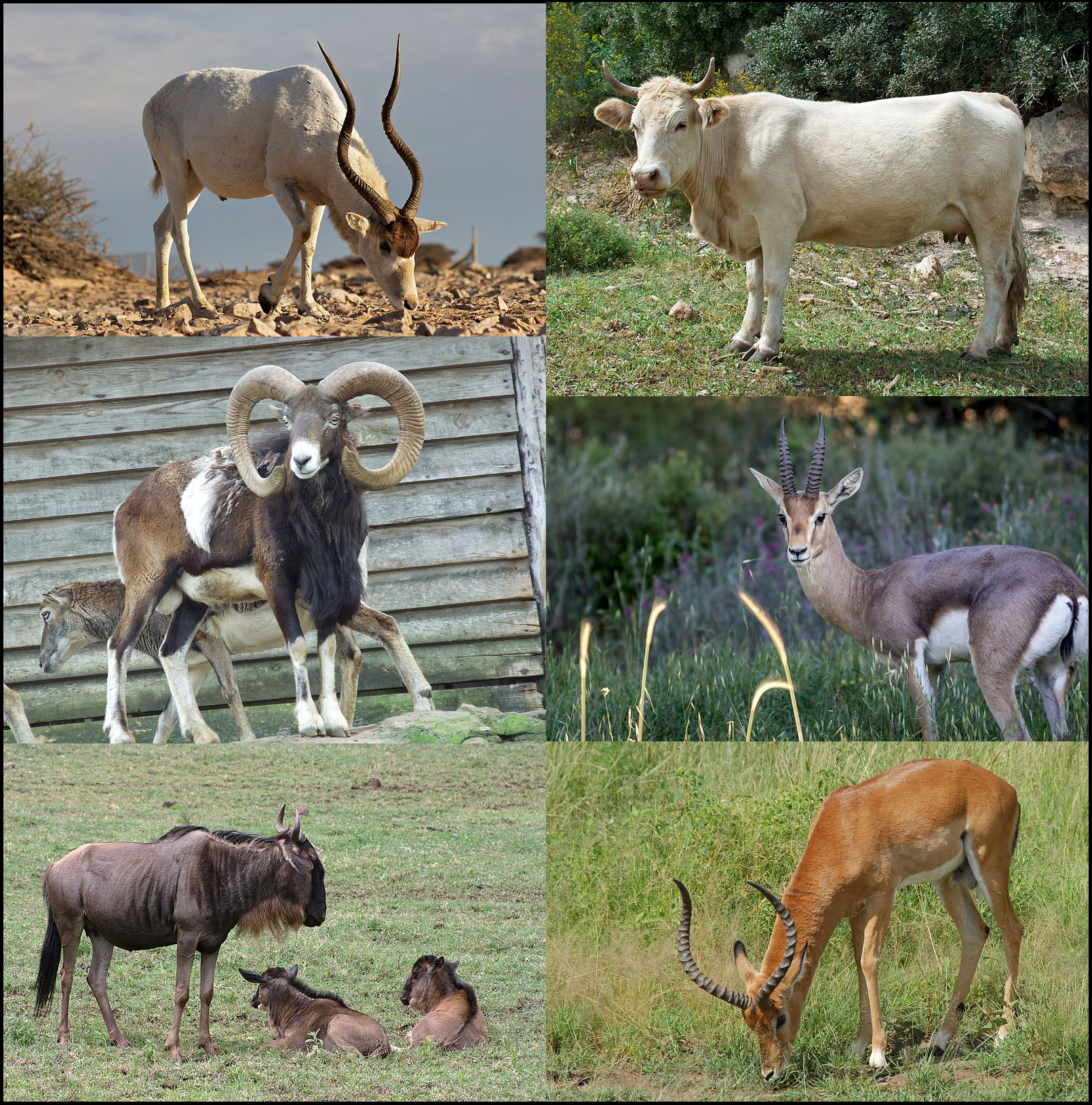 Bovidae